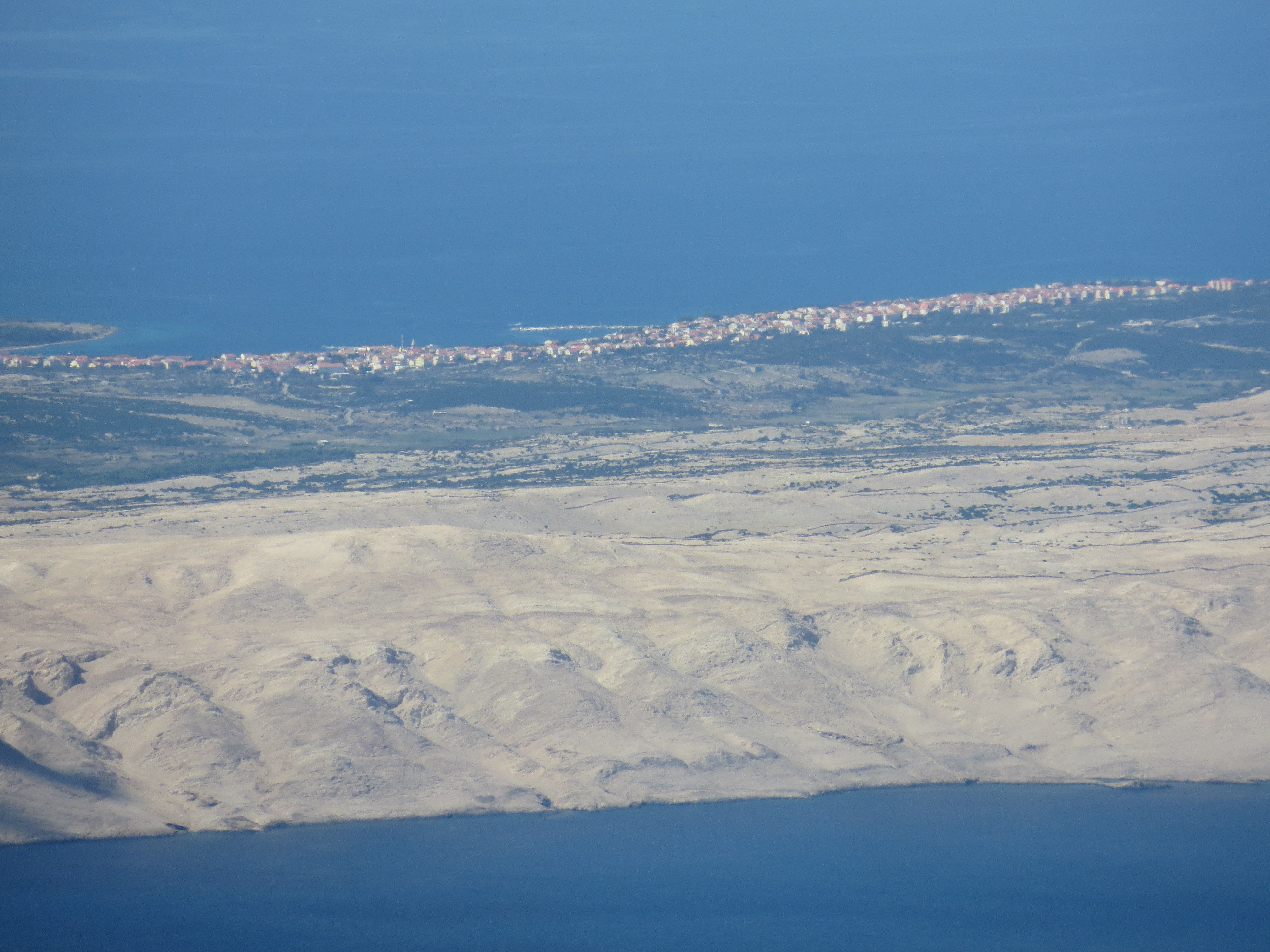 Town of Novalja, on the island of Pag, as seen from Kiza peak (a distance of c. 22 km).